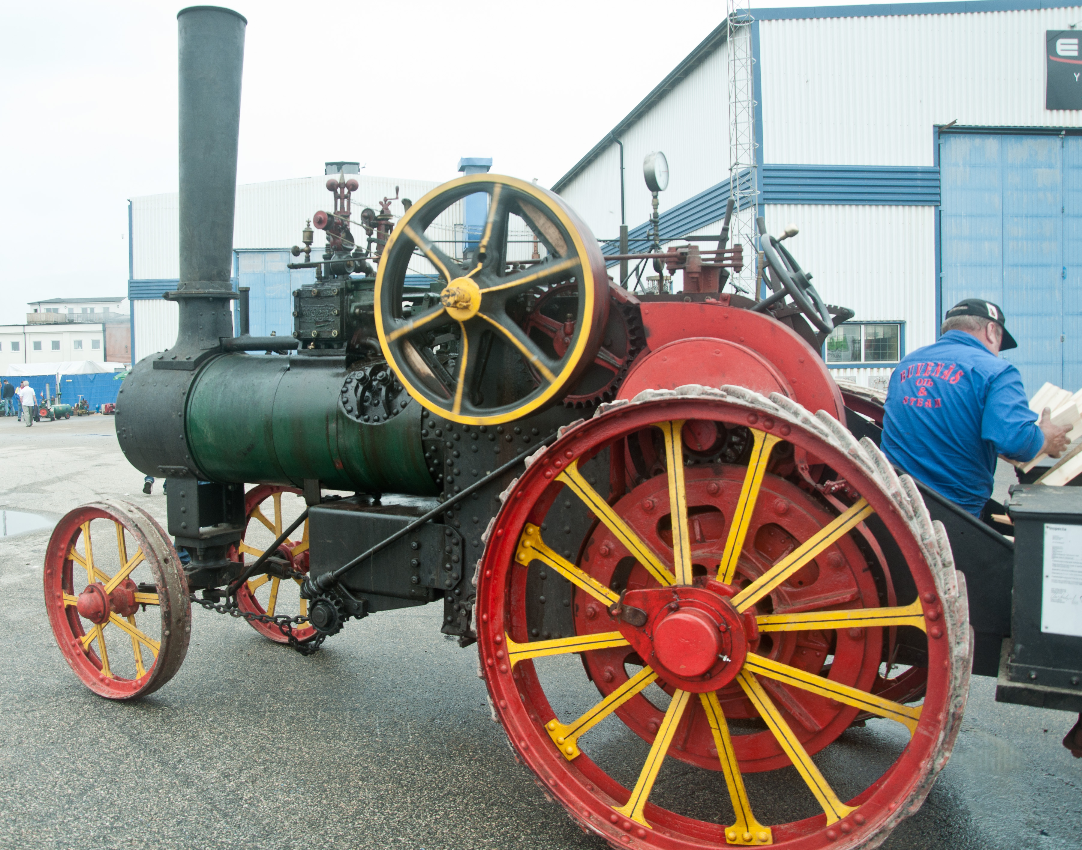 Fully operational lokomobile. Demonstrated 2012 in Lysekil, Sweden.